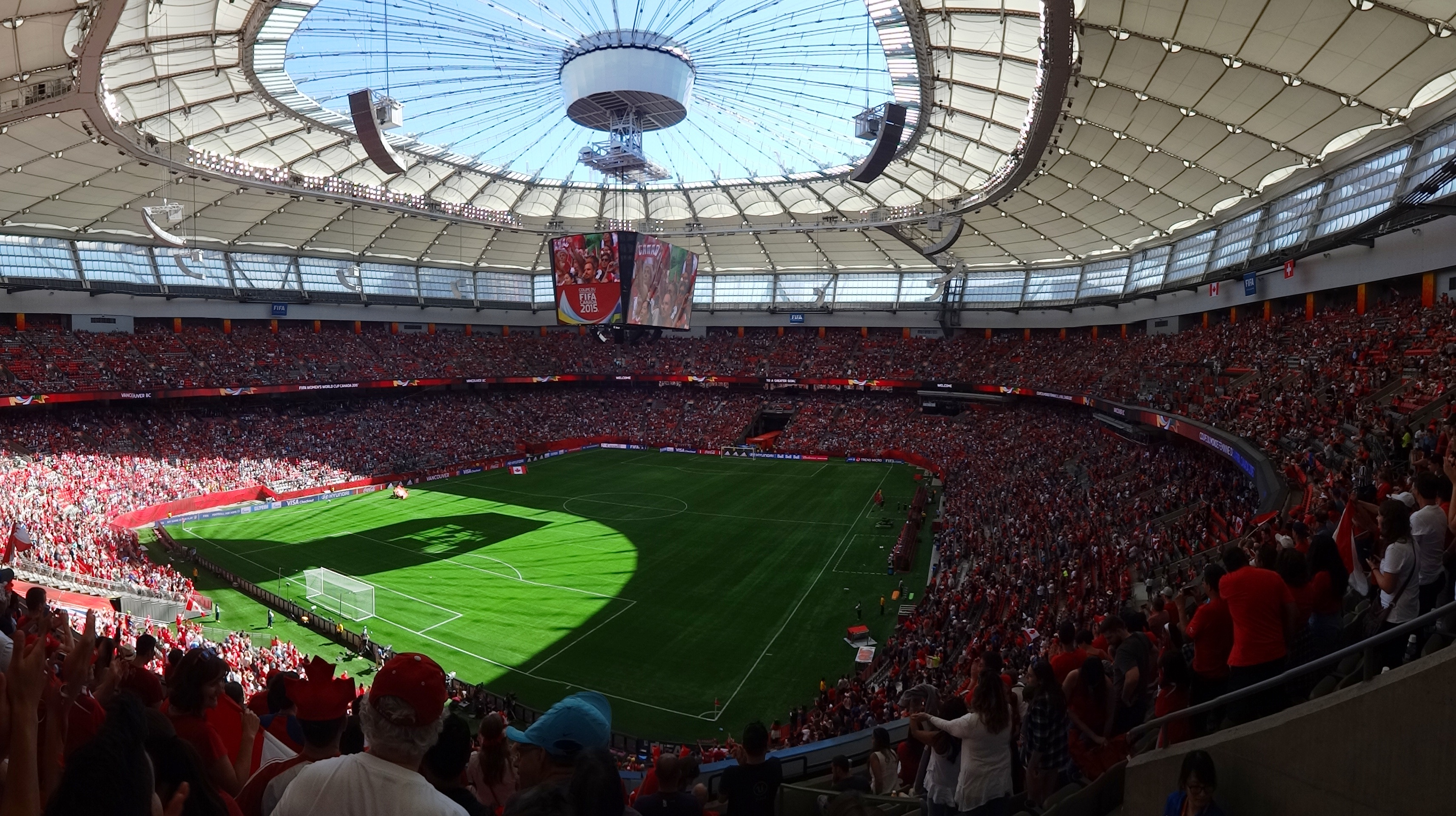 BC Place, Canada vs Switzerland